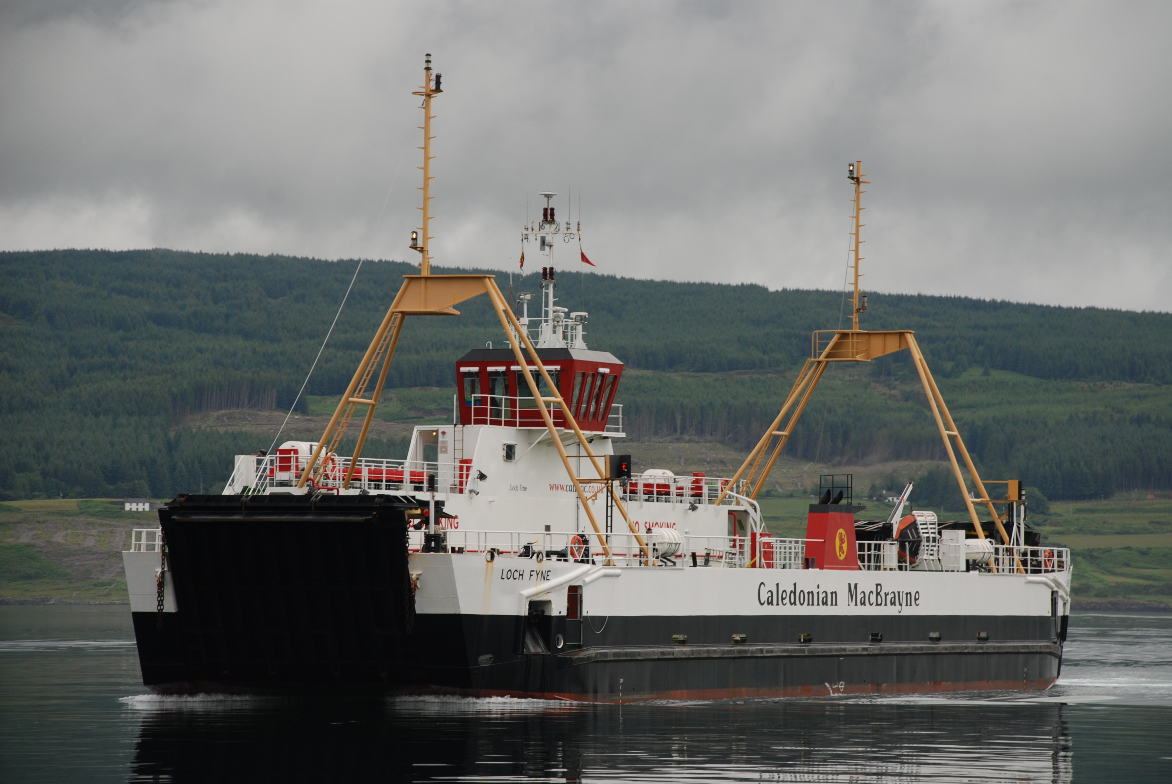 Caledonian MacBrayne ferry, MV Loch Fyne in the Sound of Mull approaching Fishnish. IMO number: 9006411